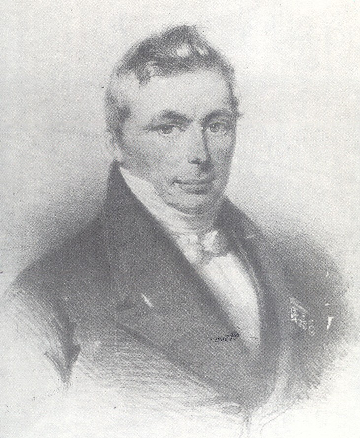 Emile d'Oultremont, member of the Constituant assembly of Belgium (1831)